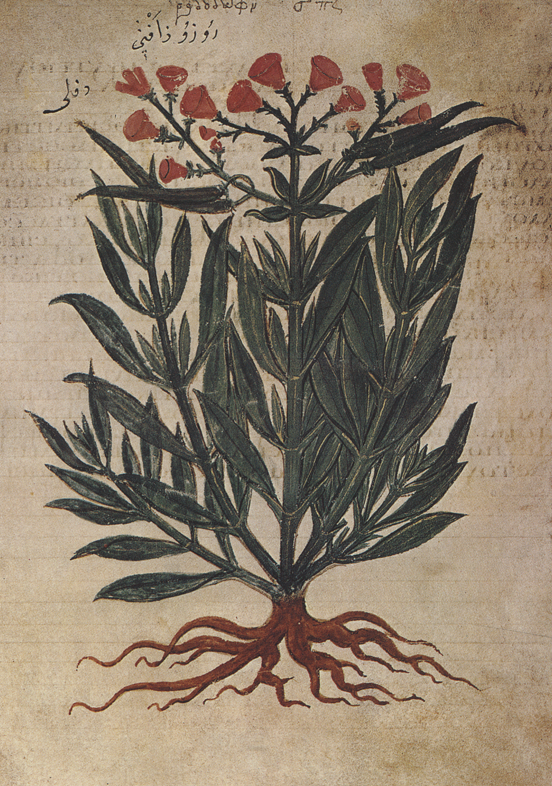 Nerium oleander folio 283r